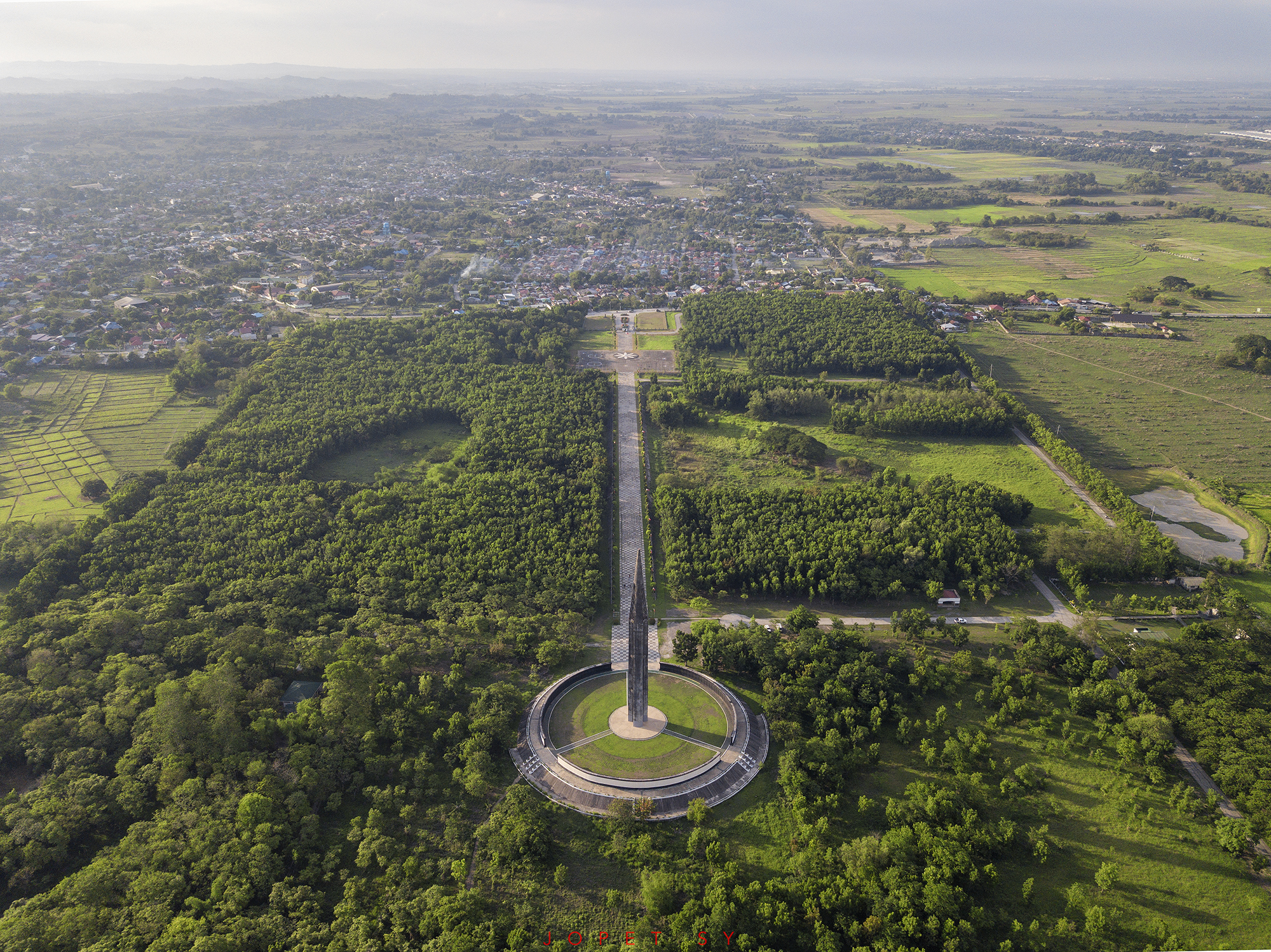 Taken with a DJI Mavic Pro Platinum in Tarlac City.